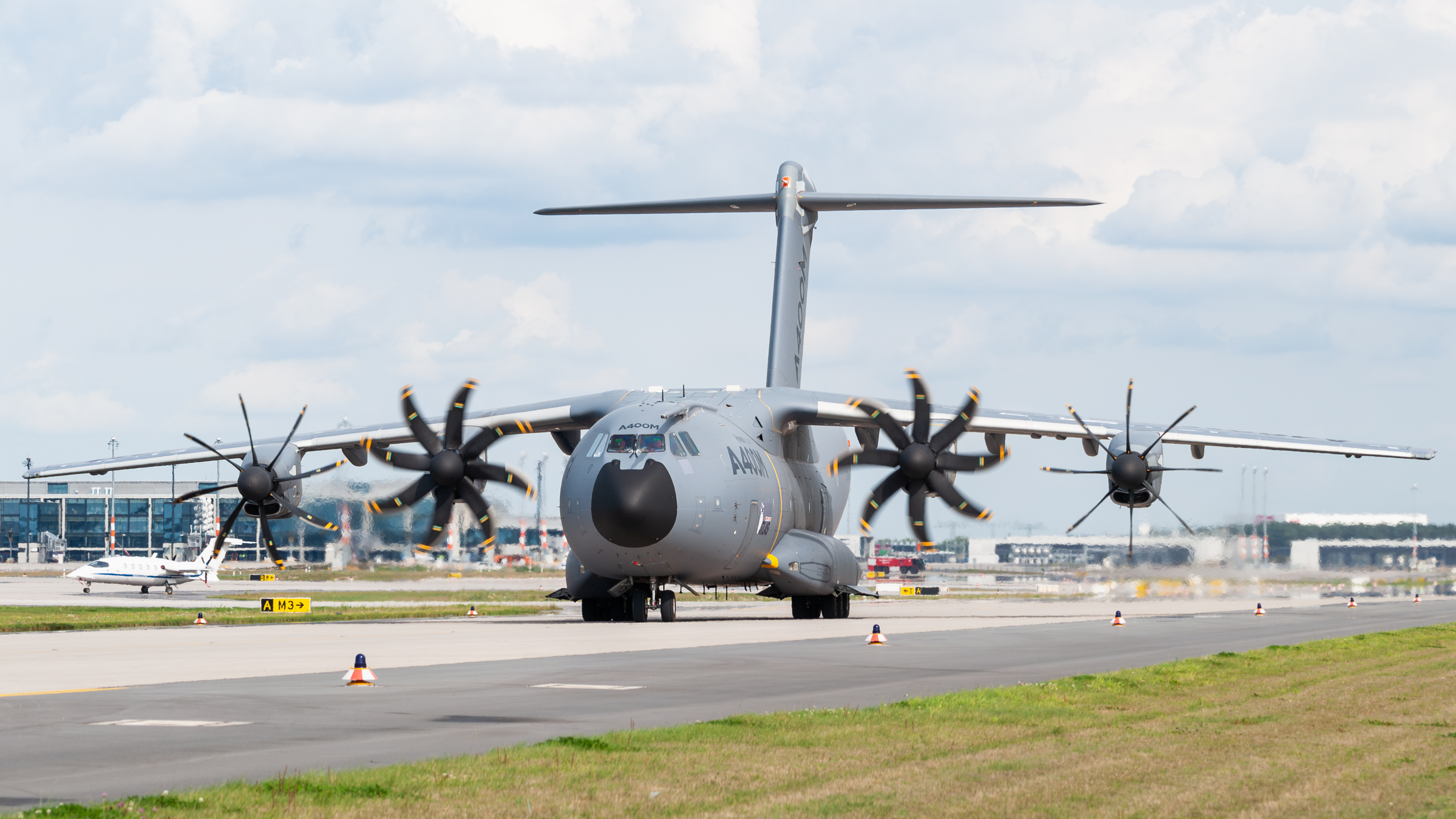 Airbus A400M (EC-404; MSN 004) at ILA Berlin Air Show 2012.